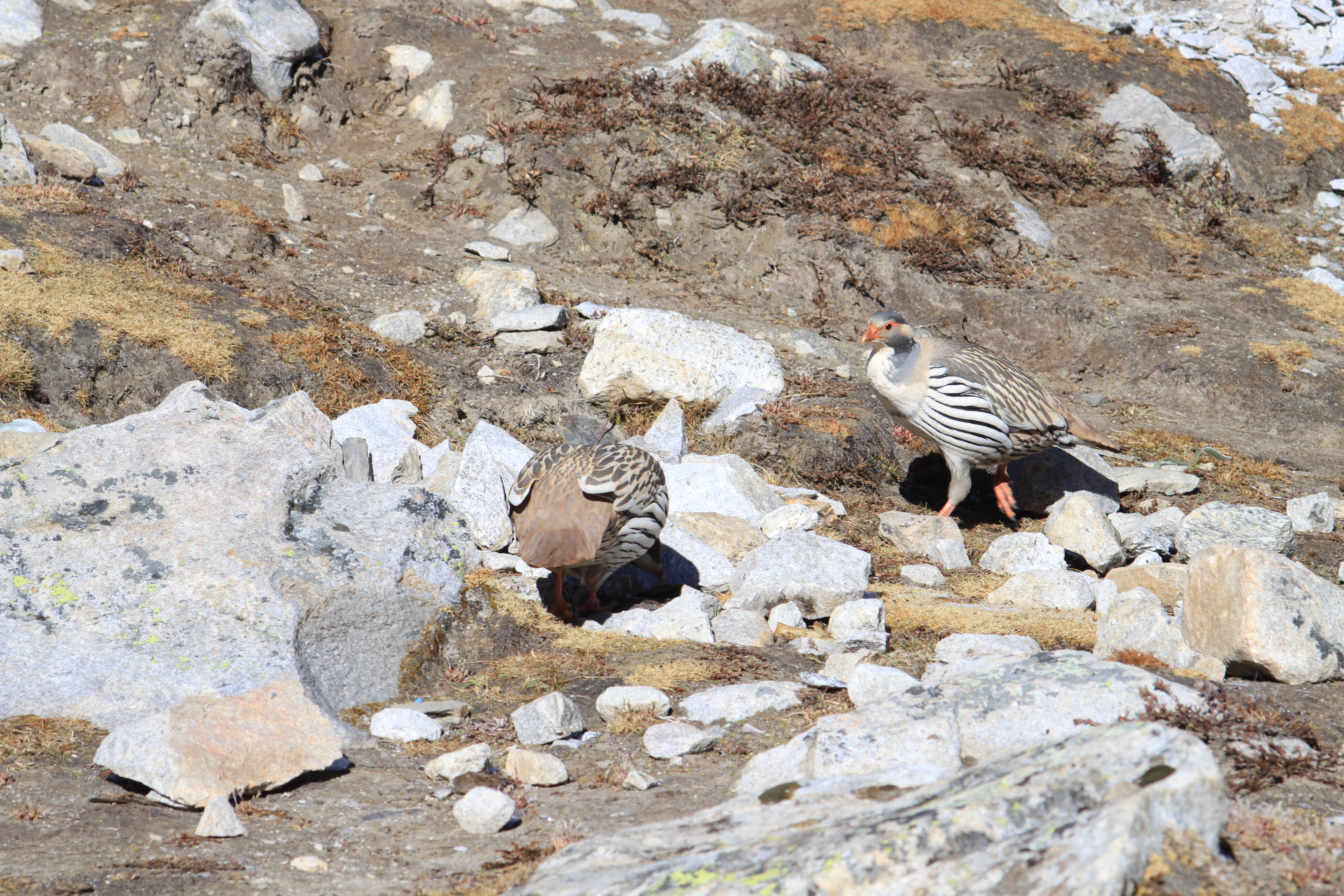 Tibetan Snowcock in Goarak Shep, 5200m, Mt. Everest Region